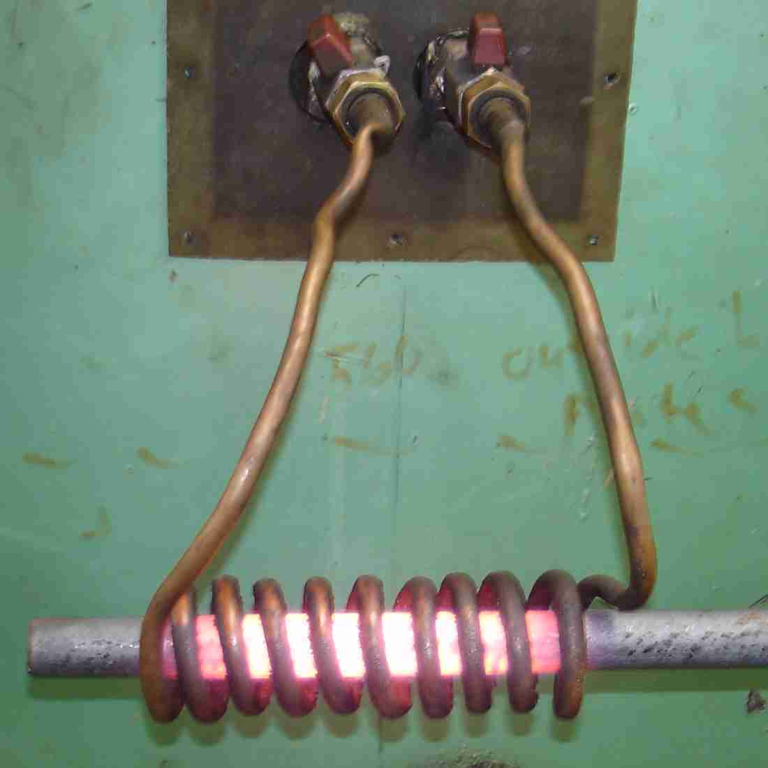 Induction heating of 25mm bar using 15kW at 450 kHz.